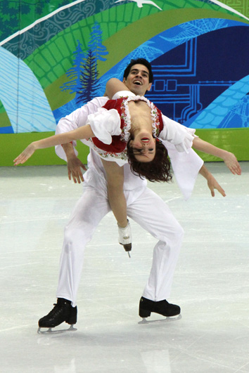 2010 Winter Olympics figure skating - Anna Cappellini and Luca Lanotte